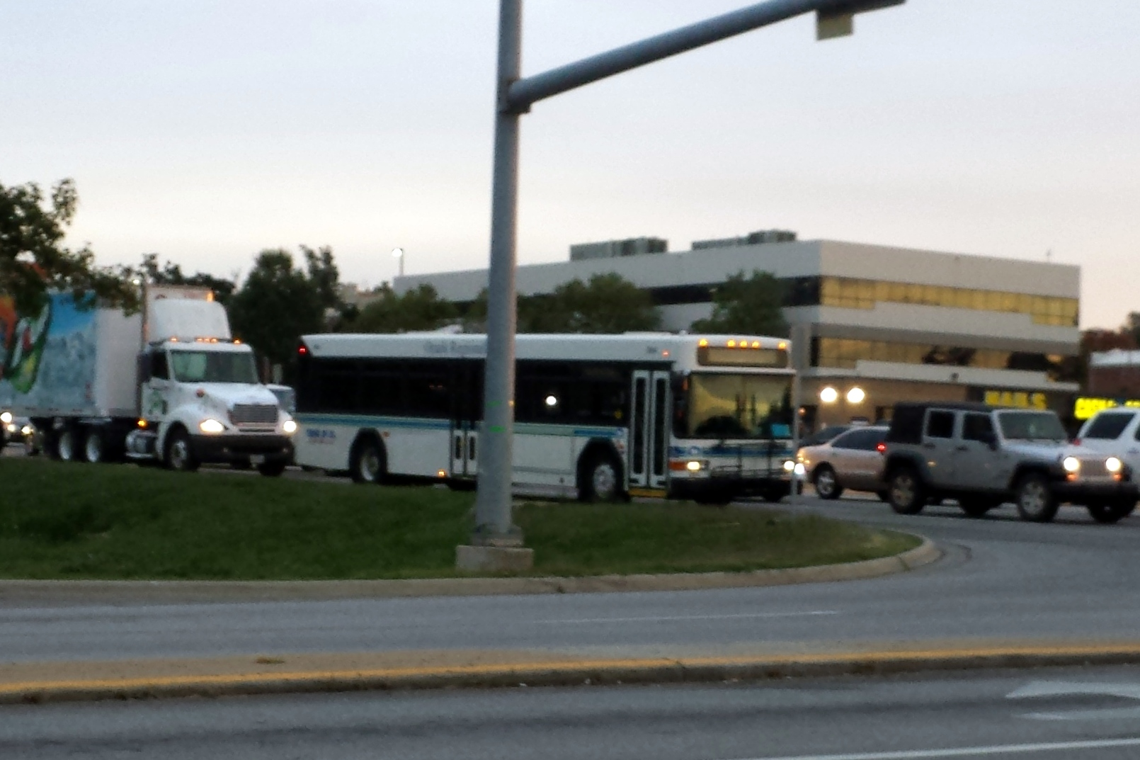 ORT bus at Joyce and College intersection in Fayetteville, AR